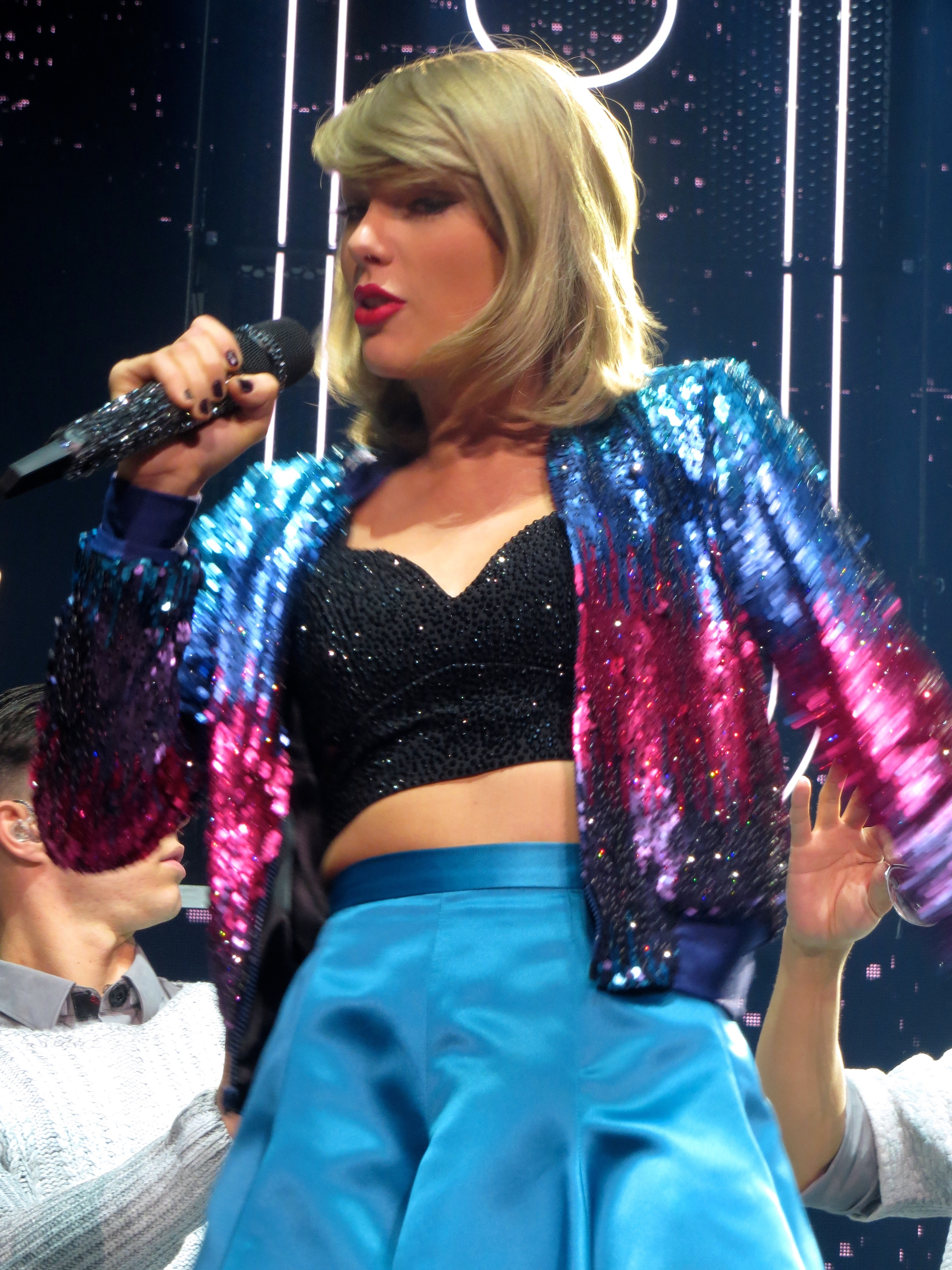 Taylor Swift 1